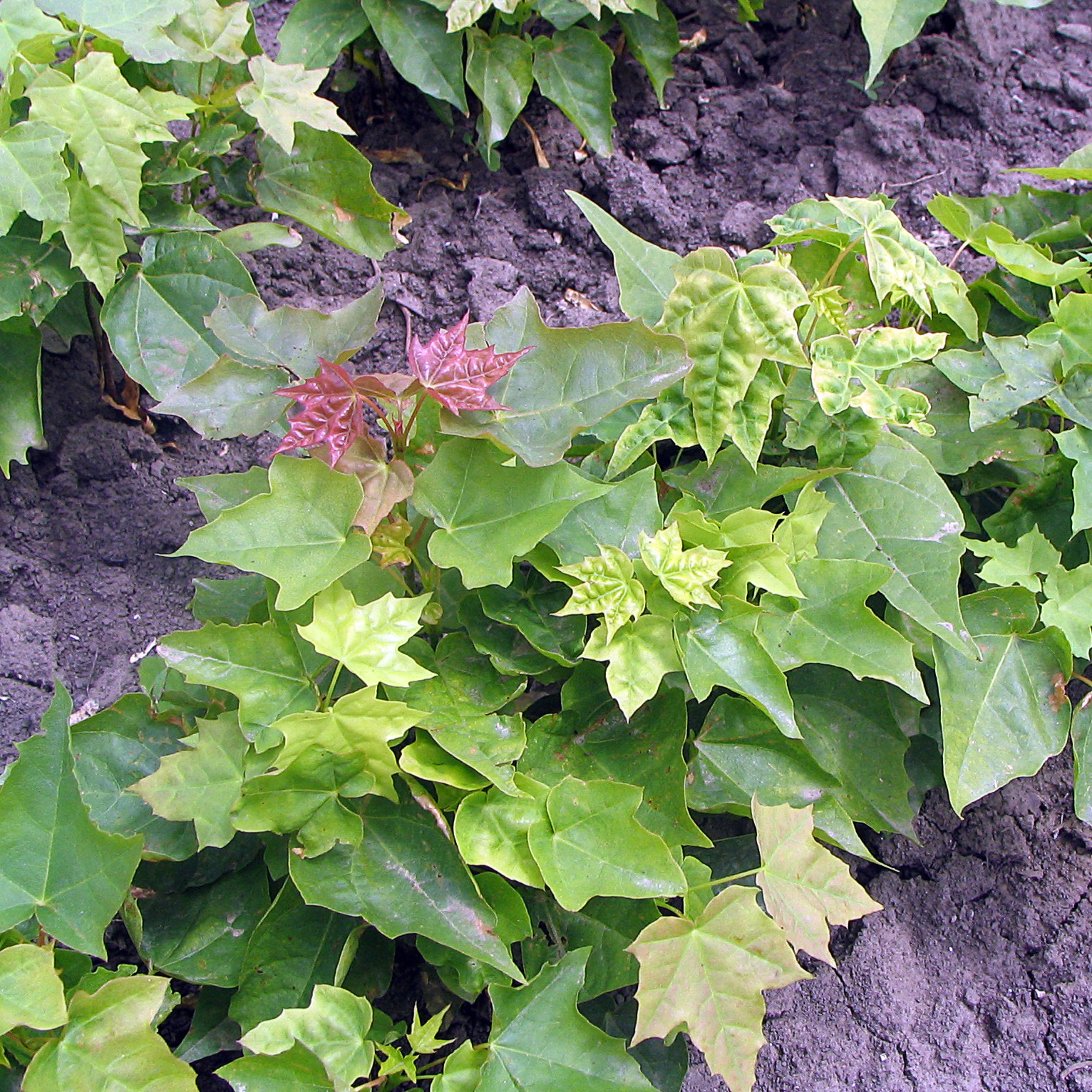 Acer platanoides seedlings 2y